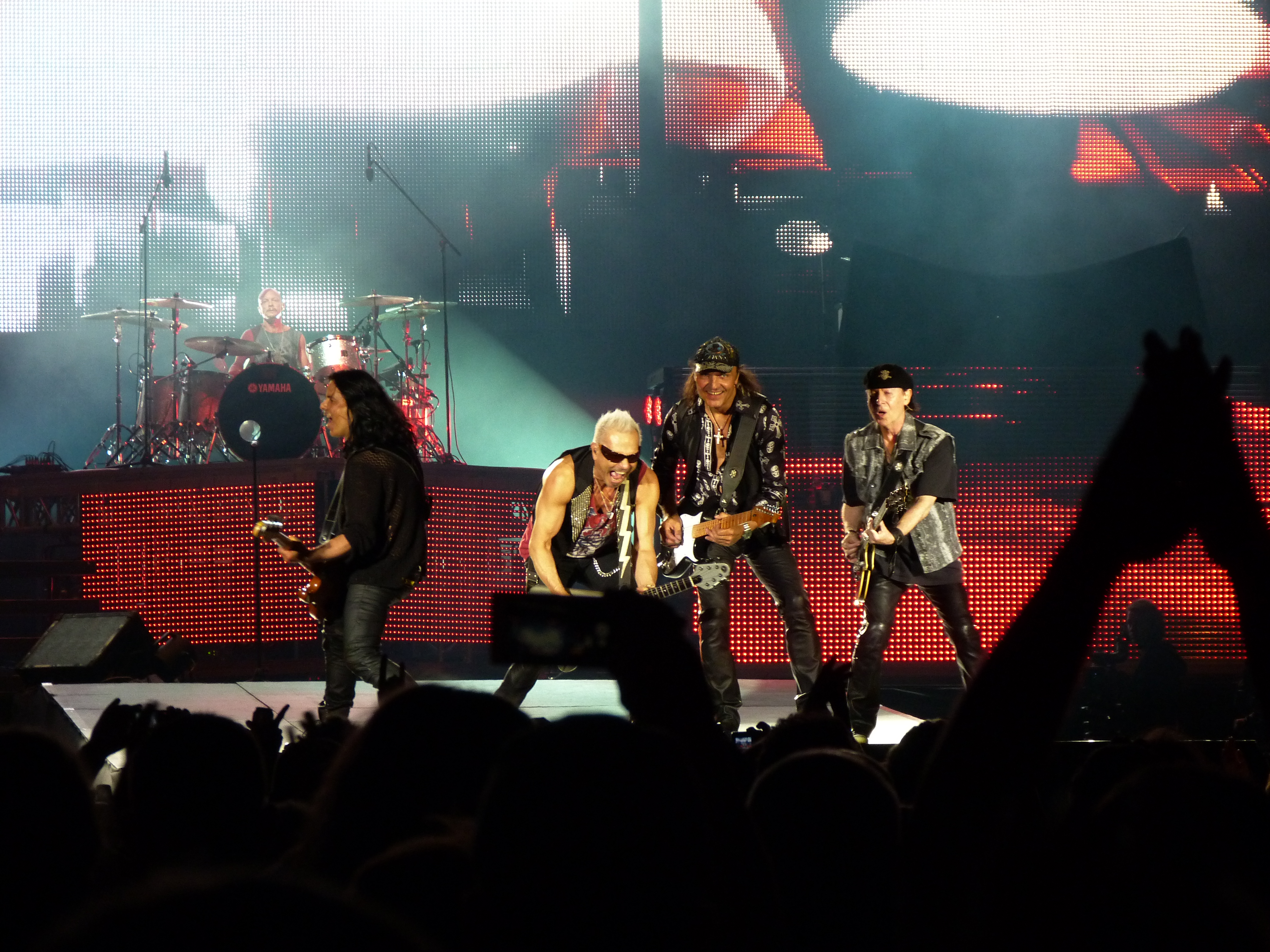 Live on the 16th of June 2014. It was 23 years ago, on the 19th of June,1991 that the last soviet soldier left Hungary. Budapest, Hungary. Hősök tere (Heldenplatz, Heroe’s squere). Tags: Kóbor János Scorpions Omega Budapest Klaus Meine Kóbor János Rudolf Schenker Matthias Jabs Pawel Maciwoda James Kottak